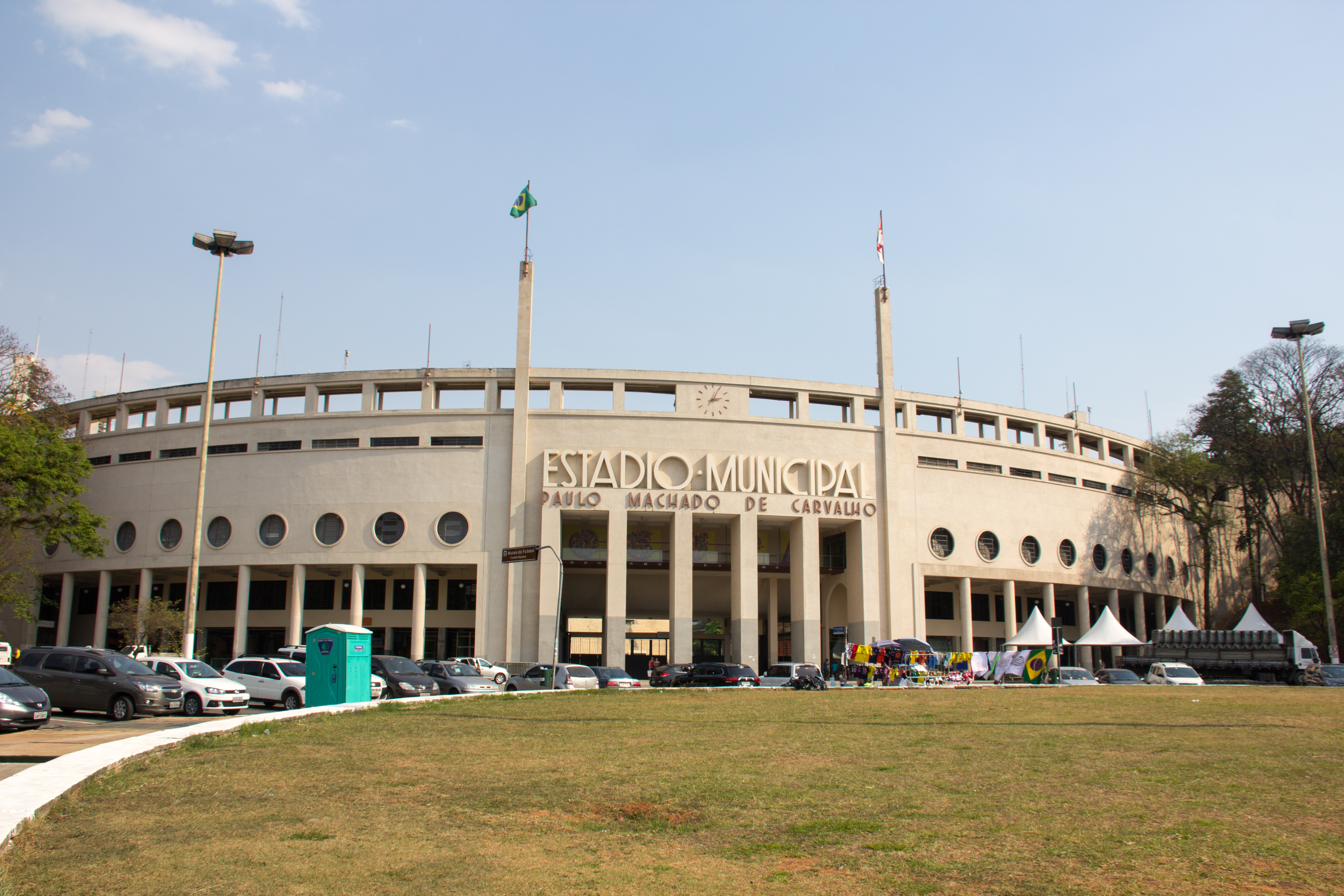 Estádio do Pacaembu, São Paulo, Brazil